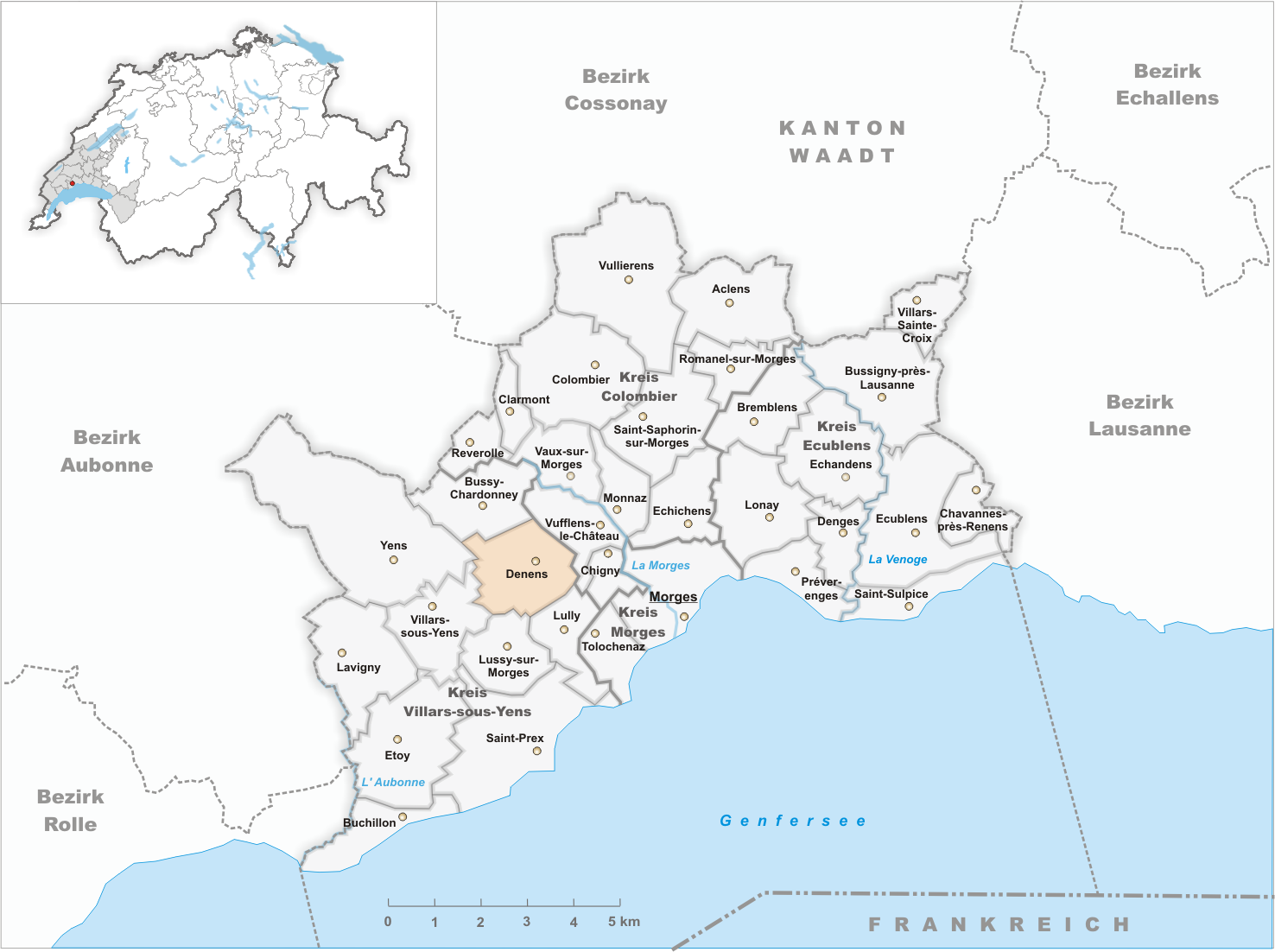 Municipality Denens